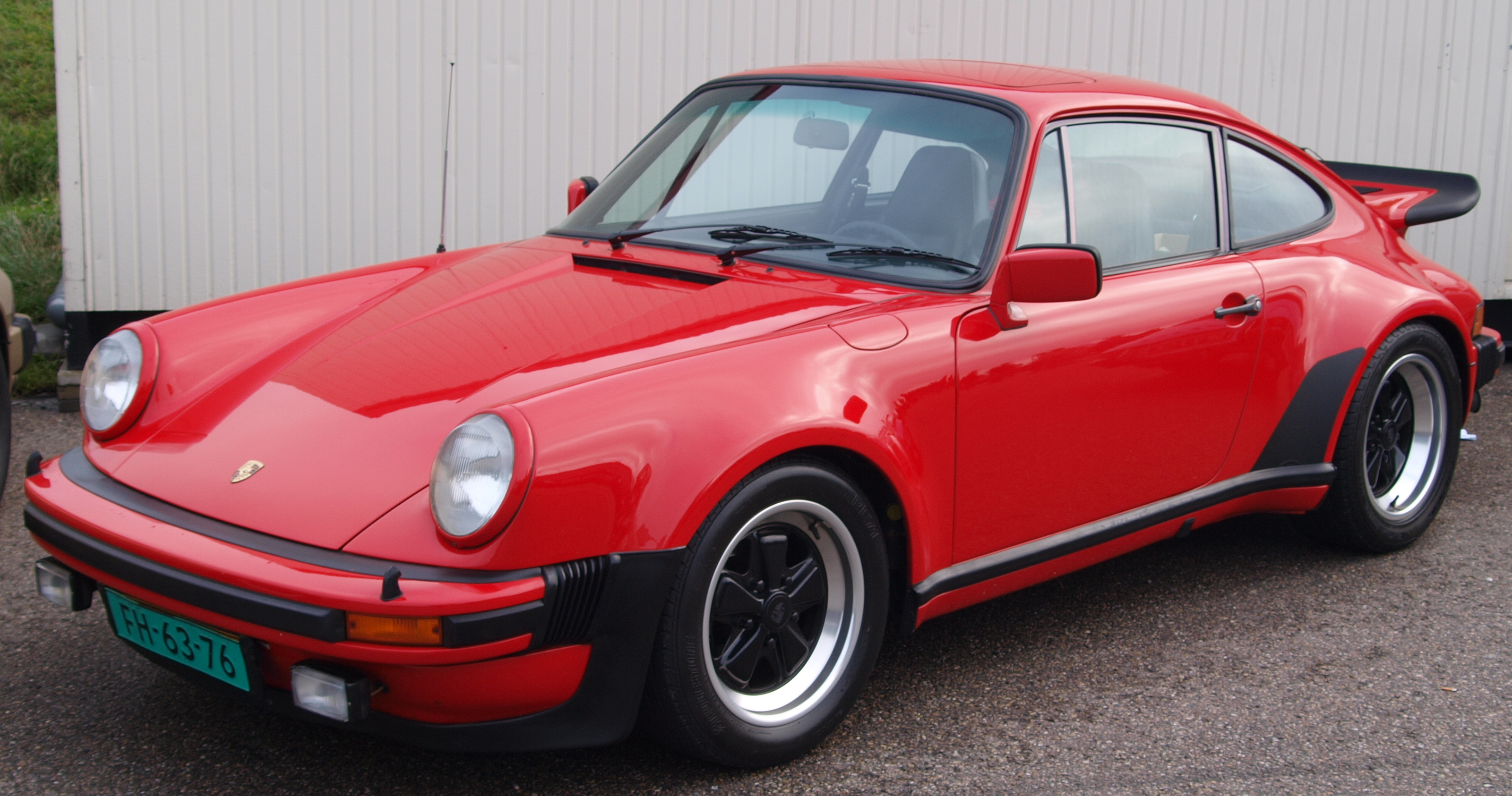 Photographed at the Nationaal Oldtimer Festival Zandvoort 2010, The Netherlands.